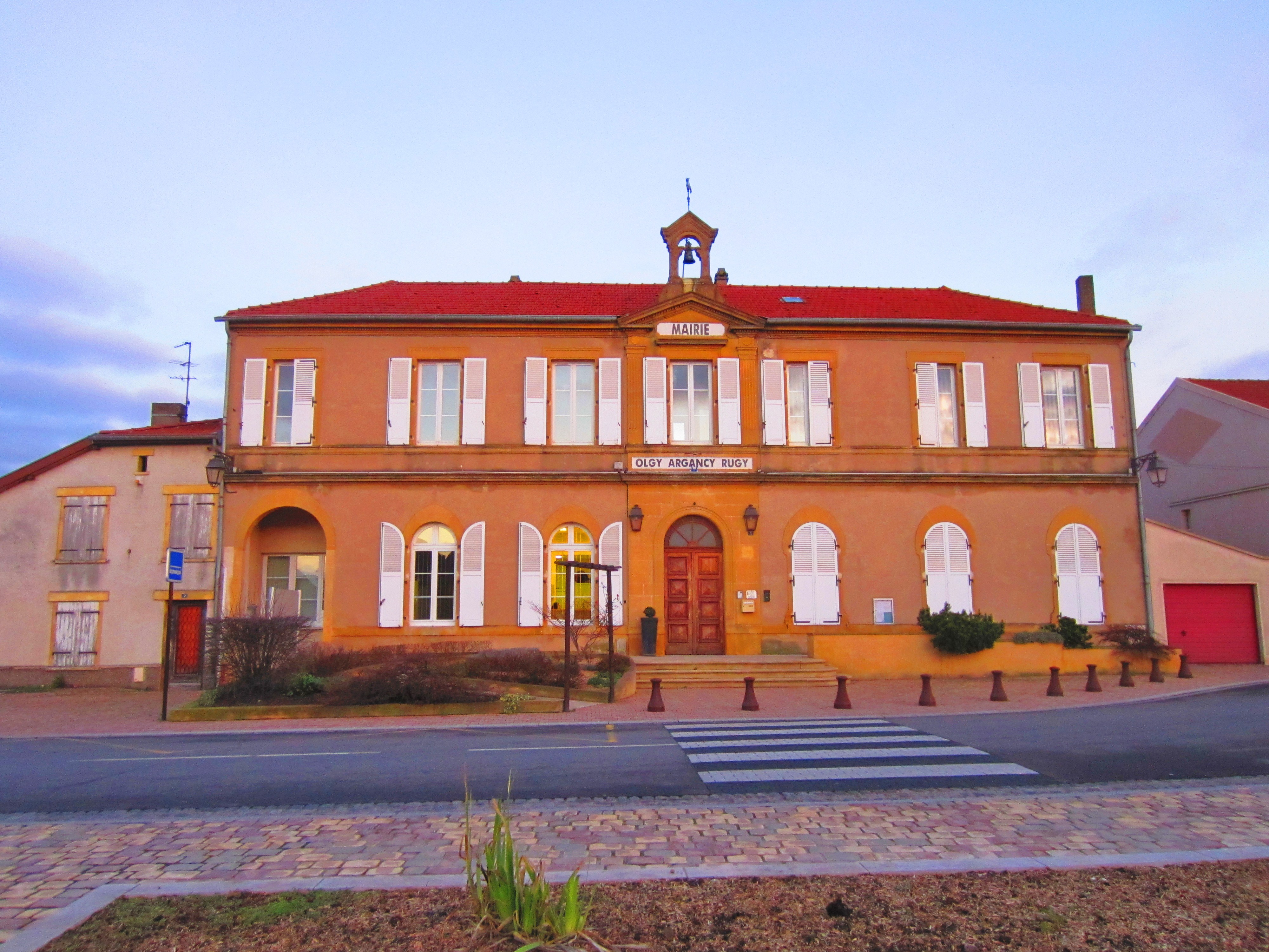 Description mairie Argancy Date11 January 2012Sourcemon appareil photoAuthorAimelaimePermission(Reusing this file) mairie Argancy